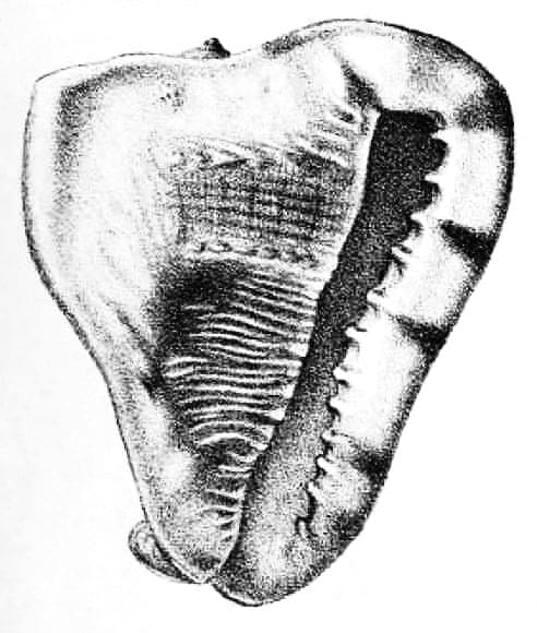 The underside of the seashell Cassis tuberosa (Linnaeus, 1758)[1]; from George W. Tryon, Jr.; Manual of Conchology, Structural and Systematic: With Illustrations of the Species (1885). Vol. VII; Cassidae - Plate 2; figure 51[2]. Description on page 271[3].